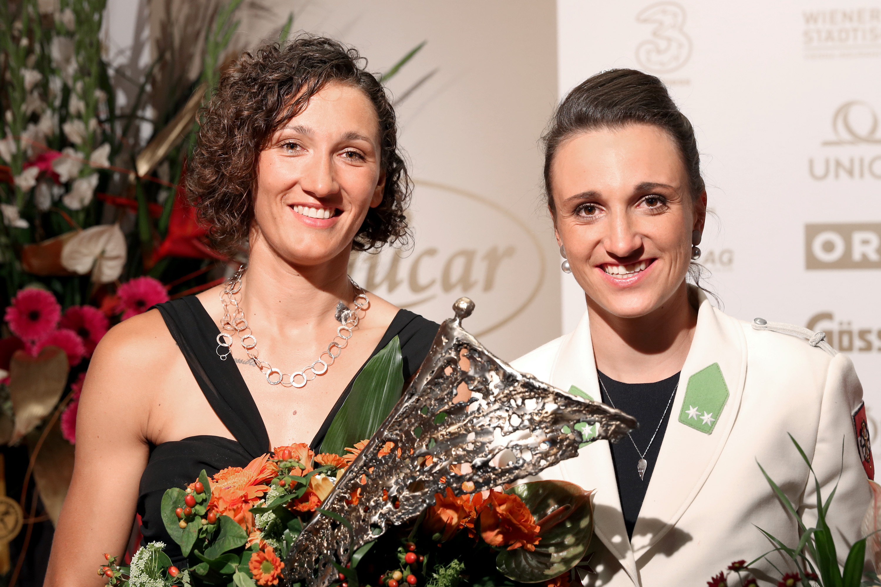 Jolanta Ogar and Lara Vadlau - Austrian Sportspersonalities of the Year 2014 (Austria Center Vienna).